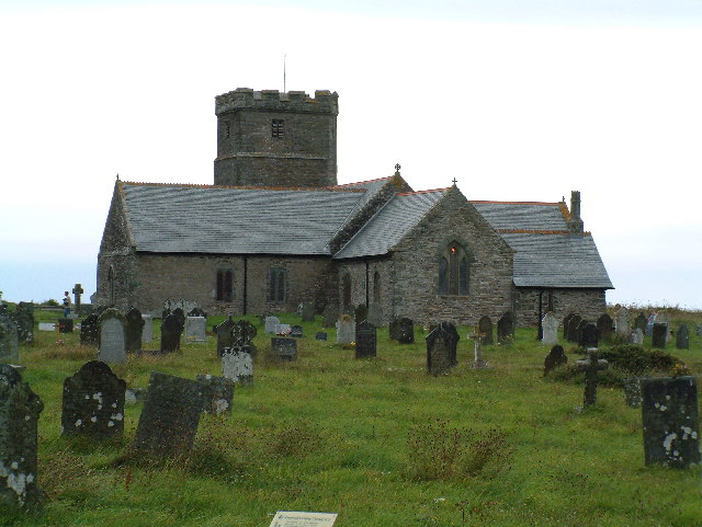 St Materiana's Church , Tintagel.